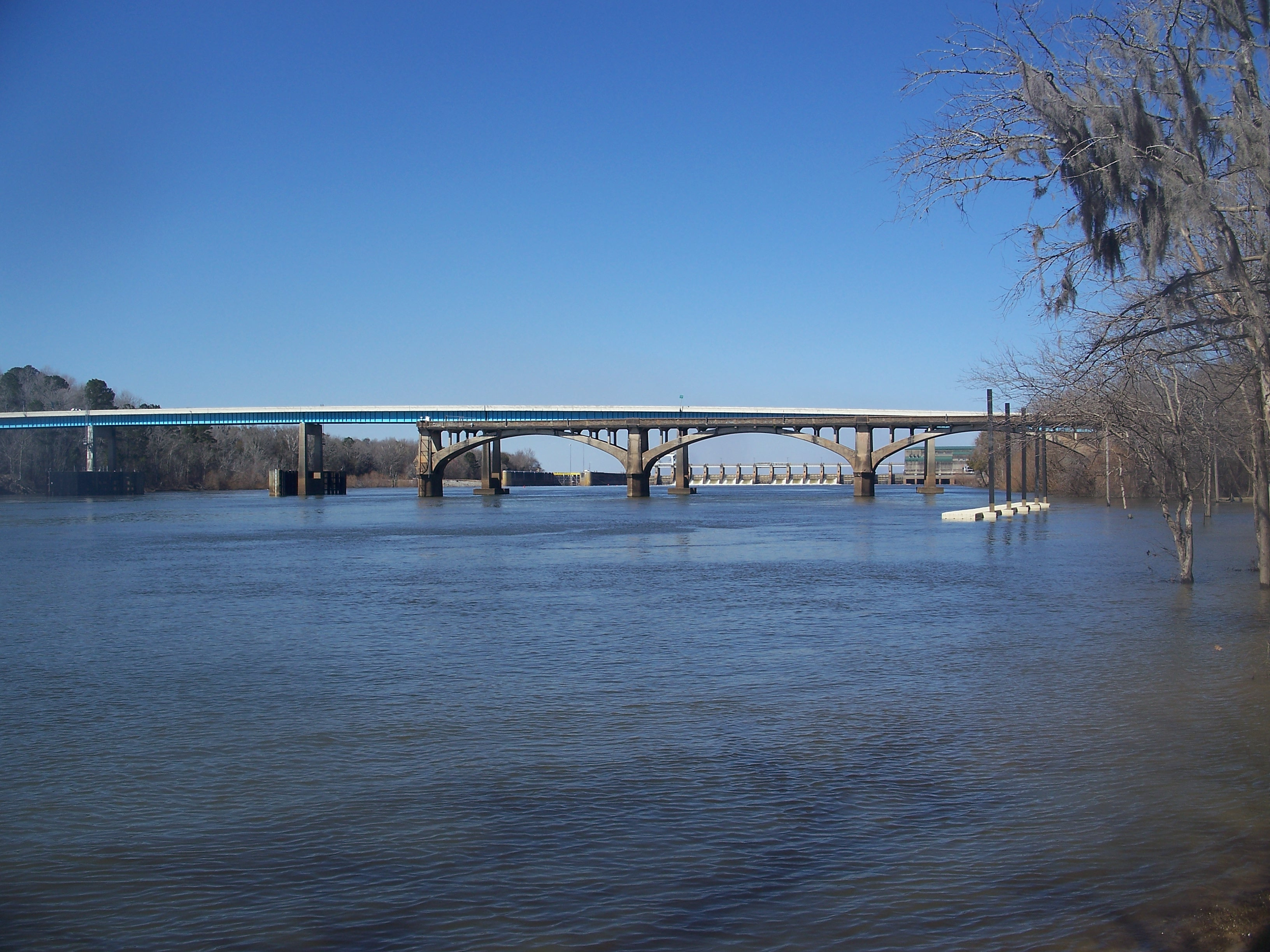 Chattahoochee, Florida: Apalachicola River: Both Victory Bridges and Jim Woodruff Dam